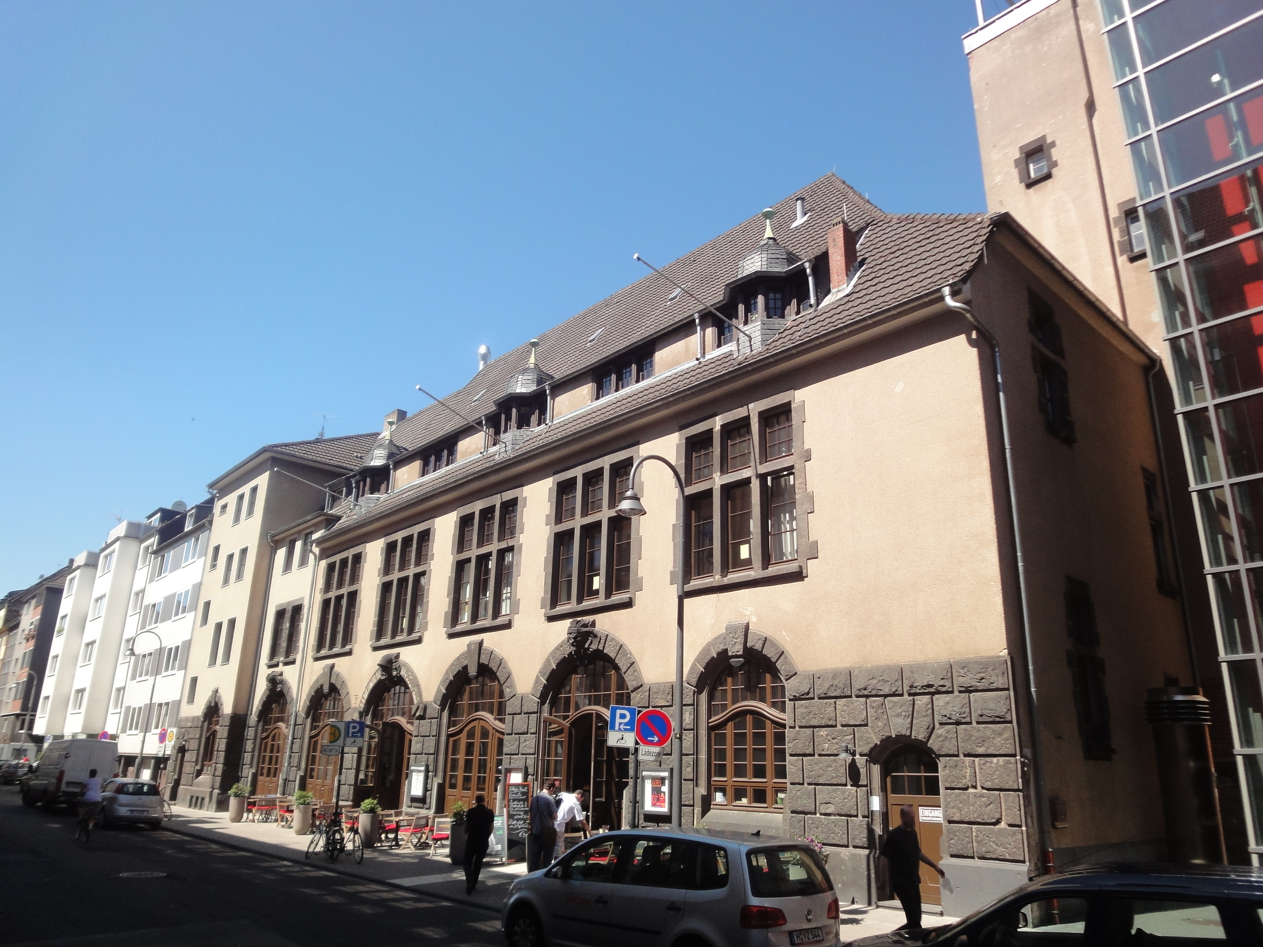 Comedia theater, Cologne